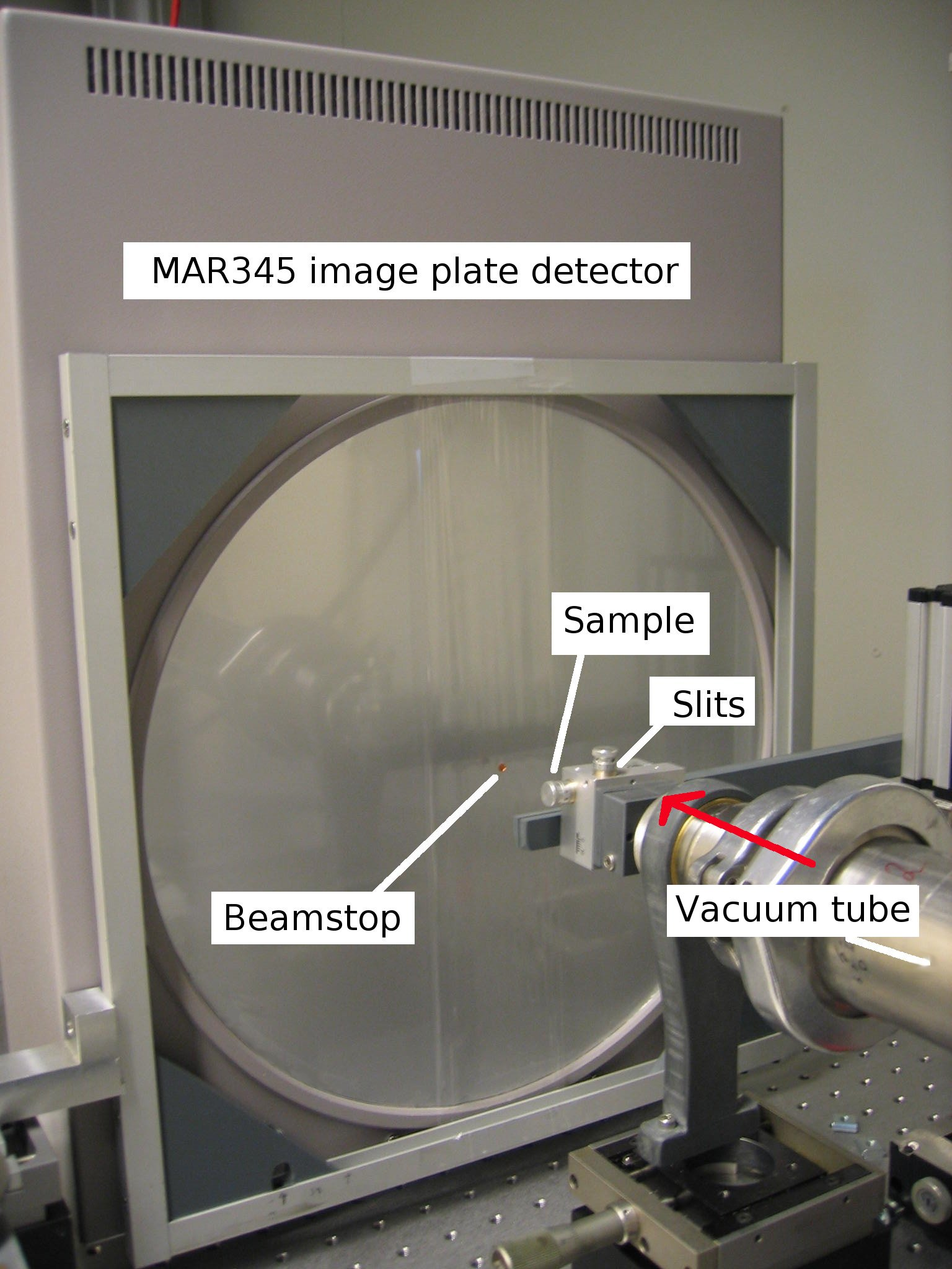 Wide-angle x-ray scattering apparatus, a 2D diffractometer at the Department of Physical Sciences, University of Helsinki, Finland